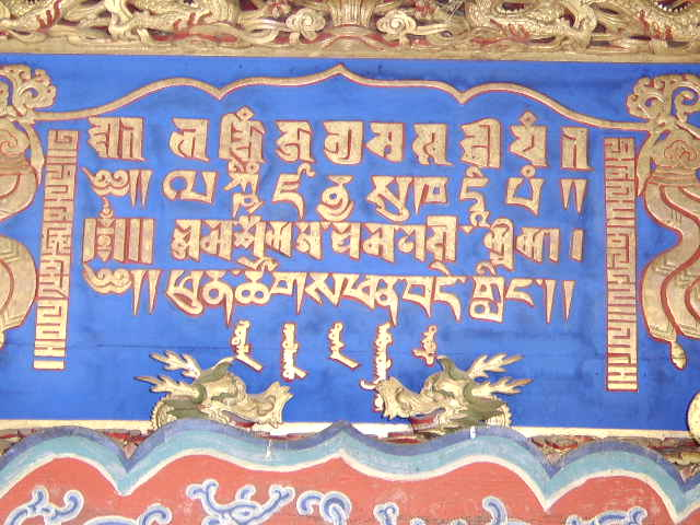 Table at the entrance of a Red Hats Temple dedicated to G. Zanabazar. Scripts historically used in Mongolia. Photographer Gantuya